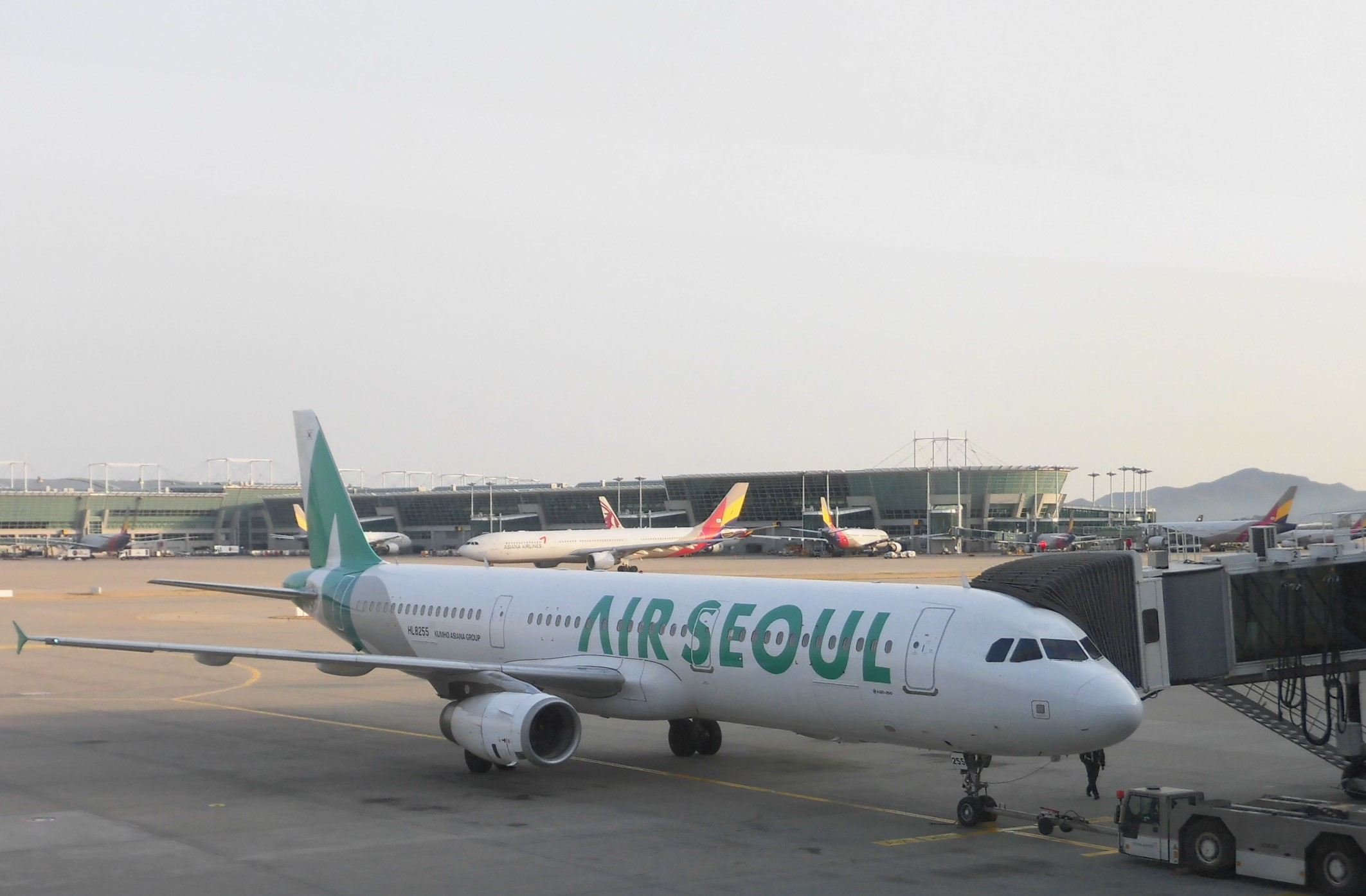 Air Seoul Airbus 321-200 HL8255 at Incheon International Airport